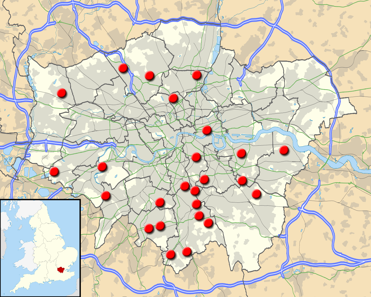 Map of M25 cat killer attacks as of April 2016, points taken from map image in This file was derived from: Greater London UK location map 2.svg